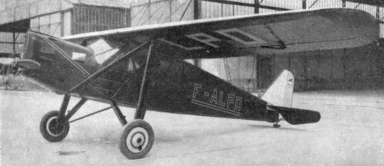 SAFA FK-43 photo from L'Aerophile Salon 1932